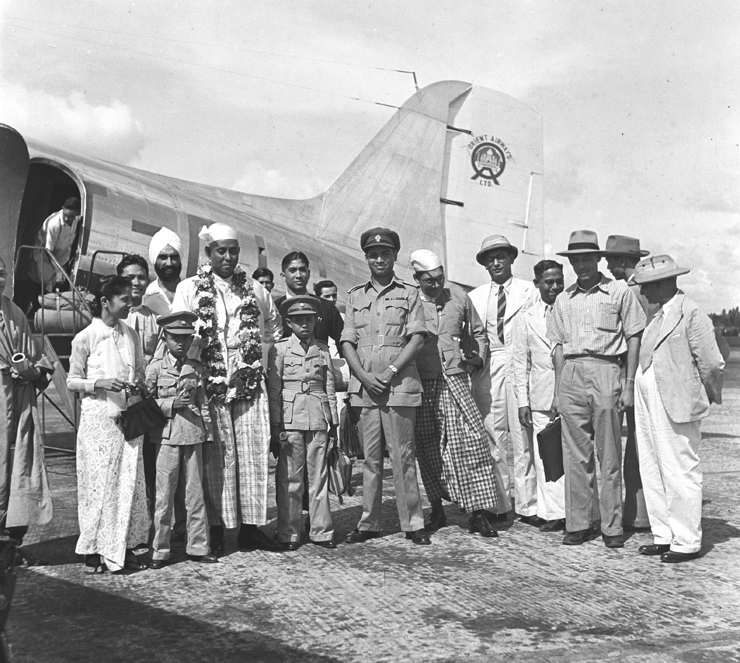 The Burmese High Commissioner to India, U. Win (garlanded) accompanied by his two sons and other members of his personal staff, arrived in the then Calcutta on 15th October 1947. At the airport, he was received by Capt. Singh, A.D.C. to the Governor of West Bengal, U. Soe Nyunt, Representative of the Governor of Burma in Calcutta; and other prominent members of the Burmese community in the city.